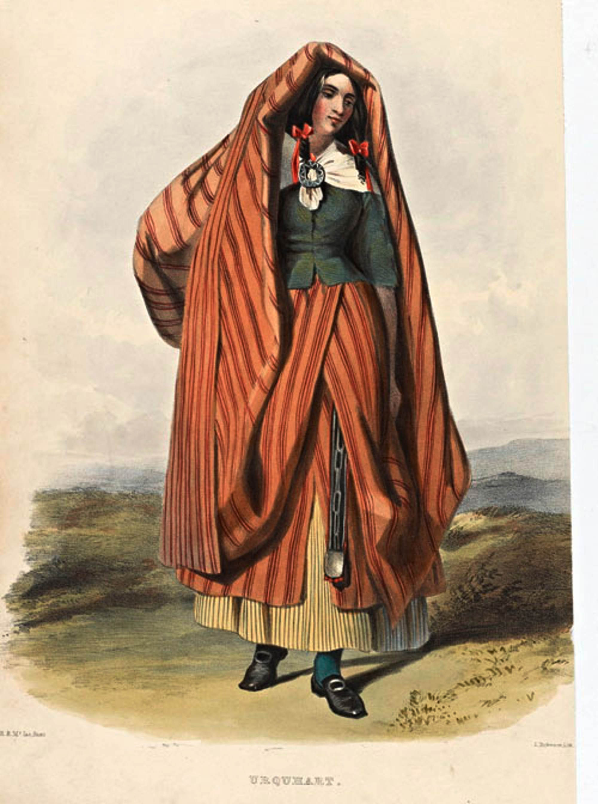 "Urquhart". A plate illustrated by R. R. McIan, from James Logan's The Clans of the Scottish Highlands, published in 1845.